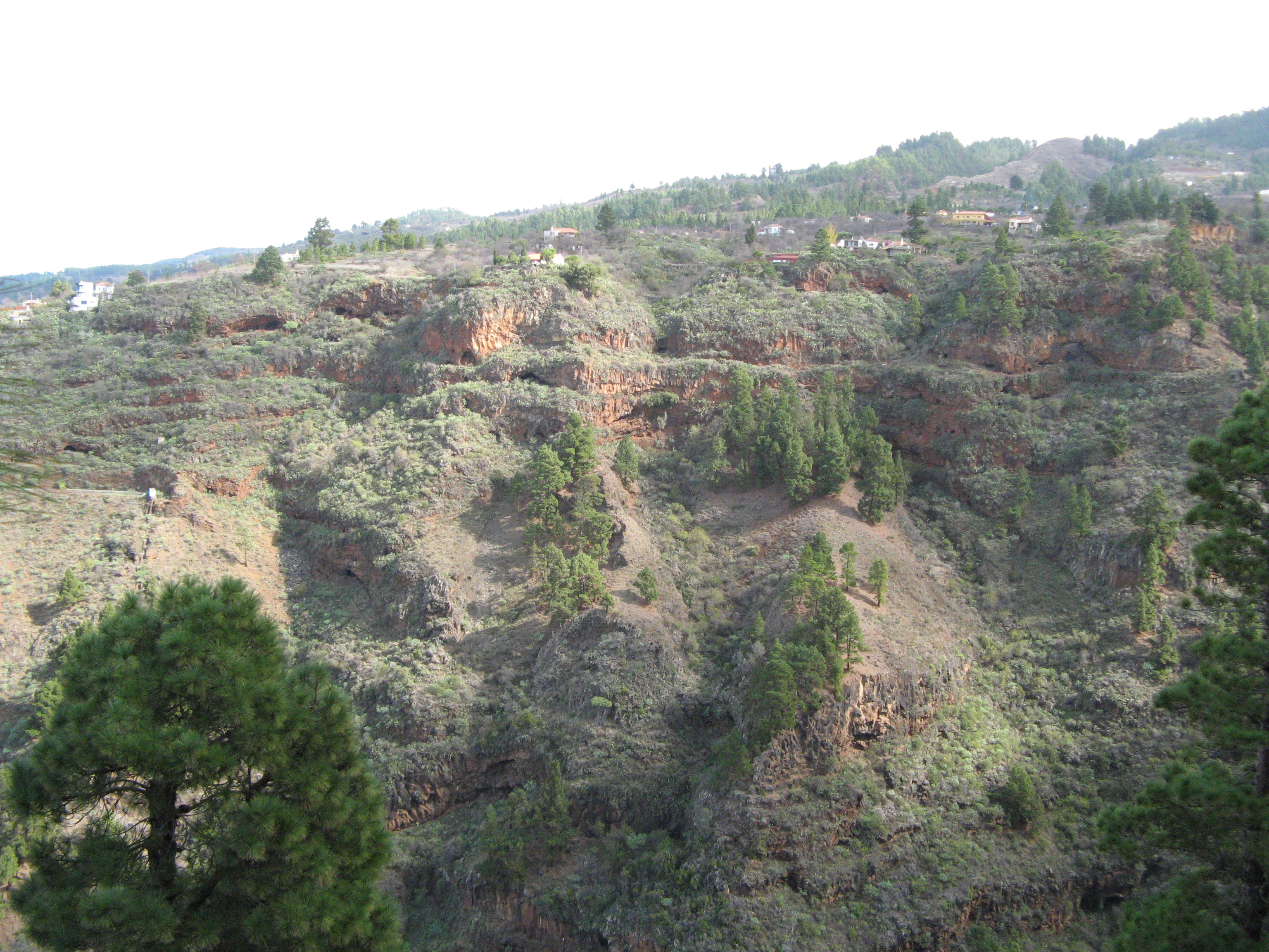 Puntagorda Barranco de Izcagua